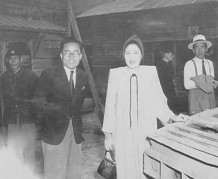 Choi Seung-hee repatriated from Beiping(Beijing) to Korea